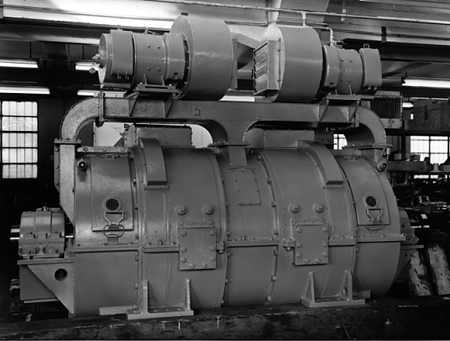 Electric engine GU365/30 of submarine type XXI